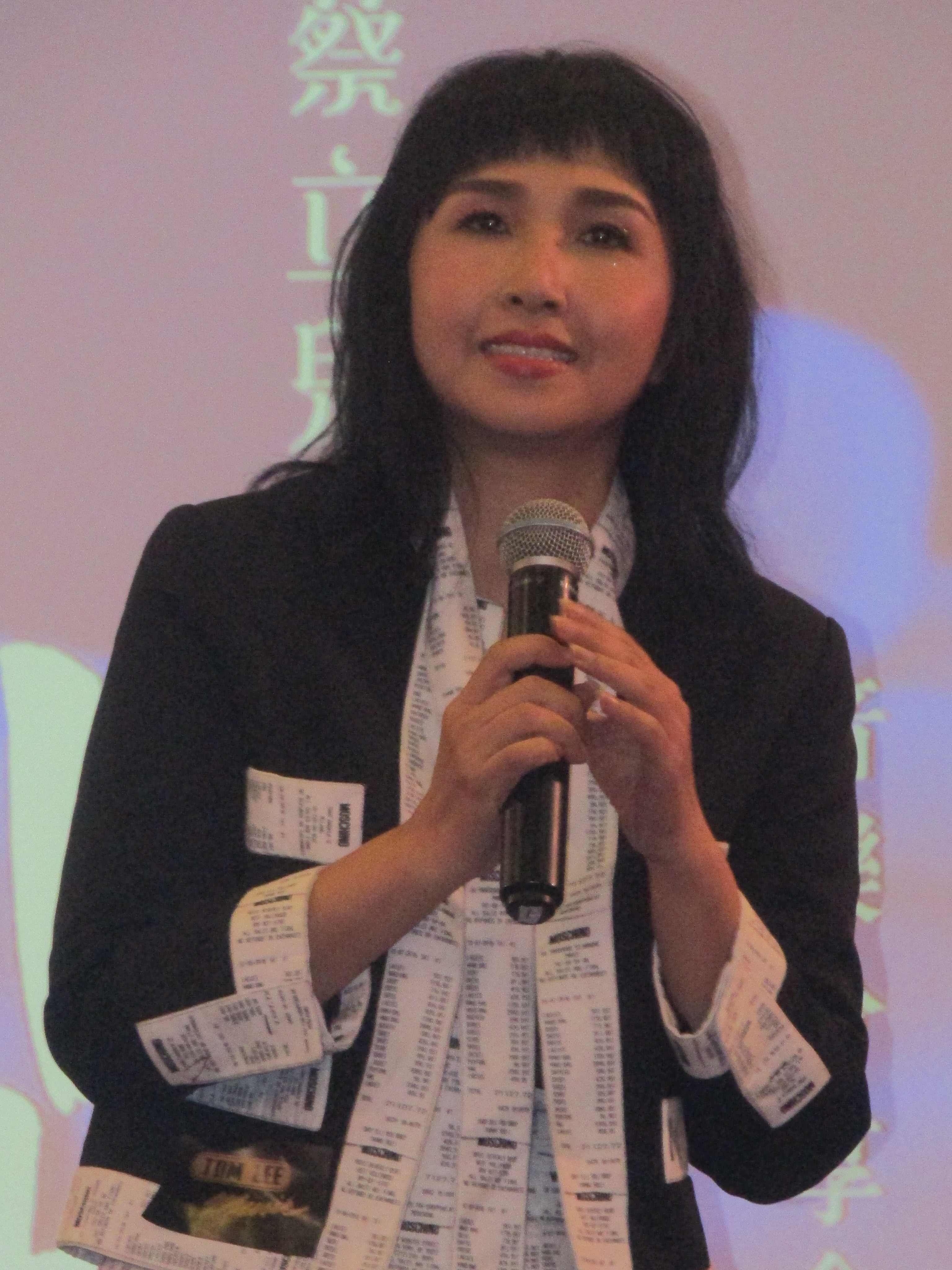 Cherrie Choi is singing at MegaBox ,Kowloon Bay